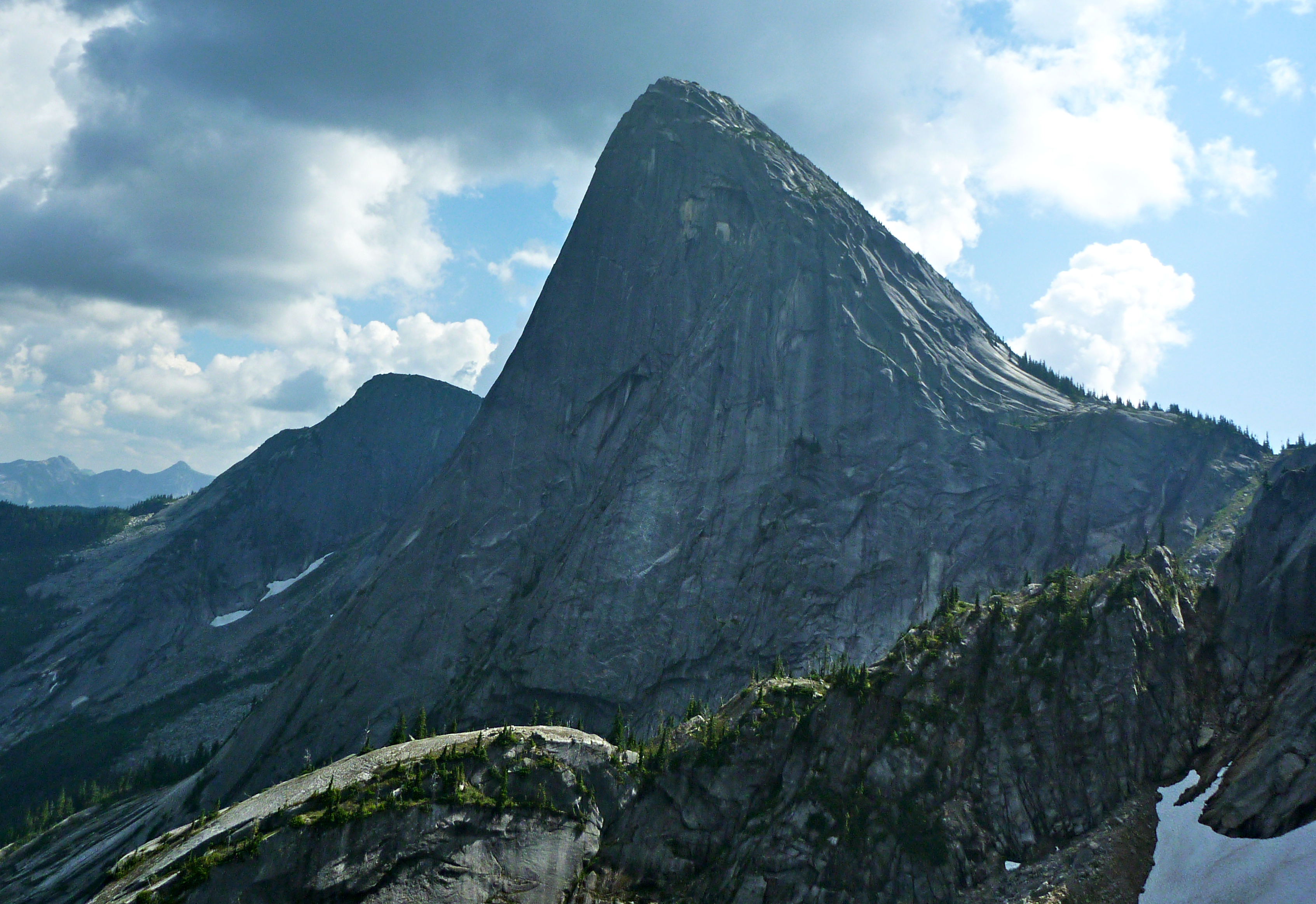 Steinbok Peak in the Canadian Cascades